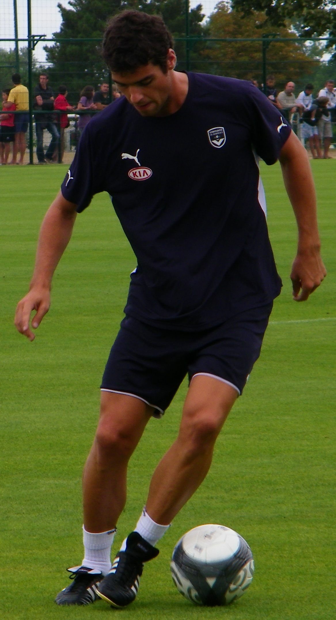 Yoann Gourcuff